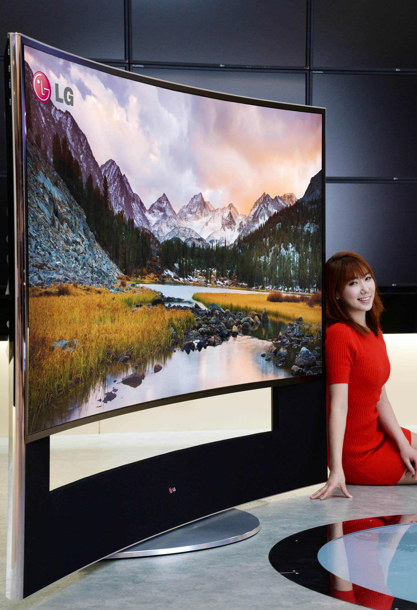 Model introducing TV